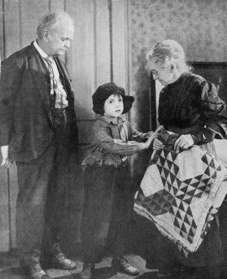 Photo of Jackie Coogan from the 1923 film Daddy.